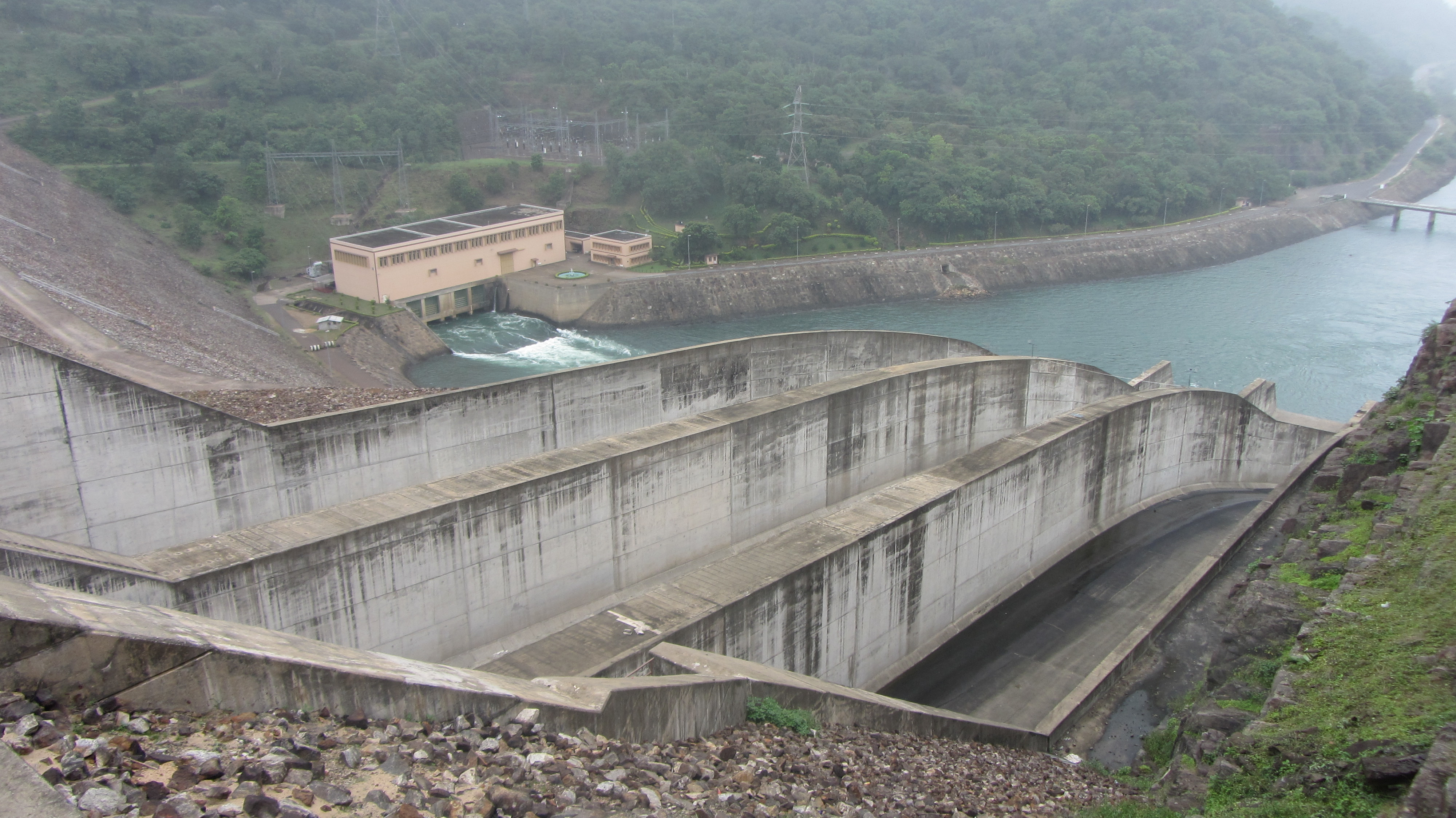 The three large spillways of the Randenigala Dam, in Sri Lanka. The power station can be seen in the background.